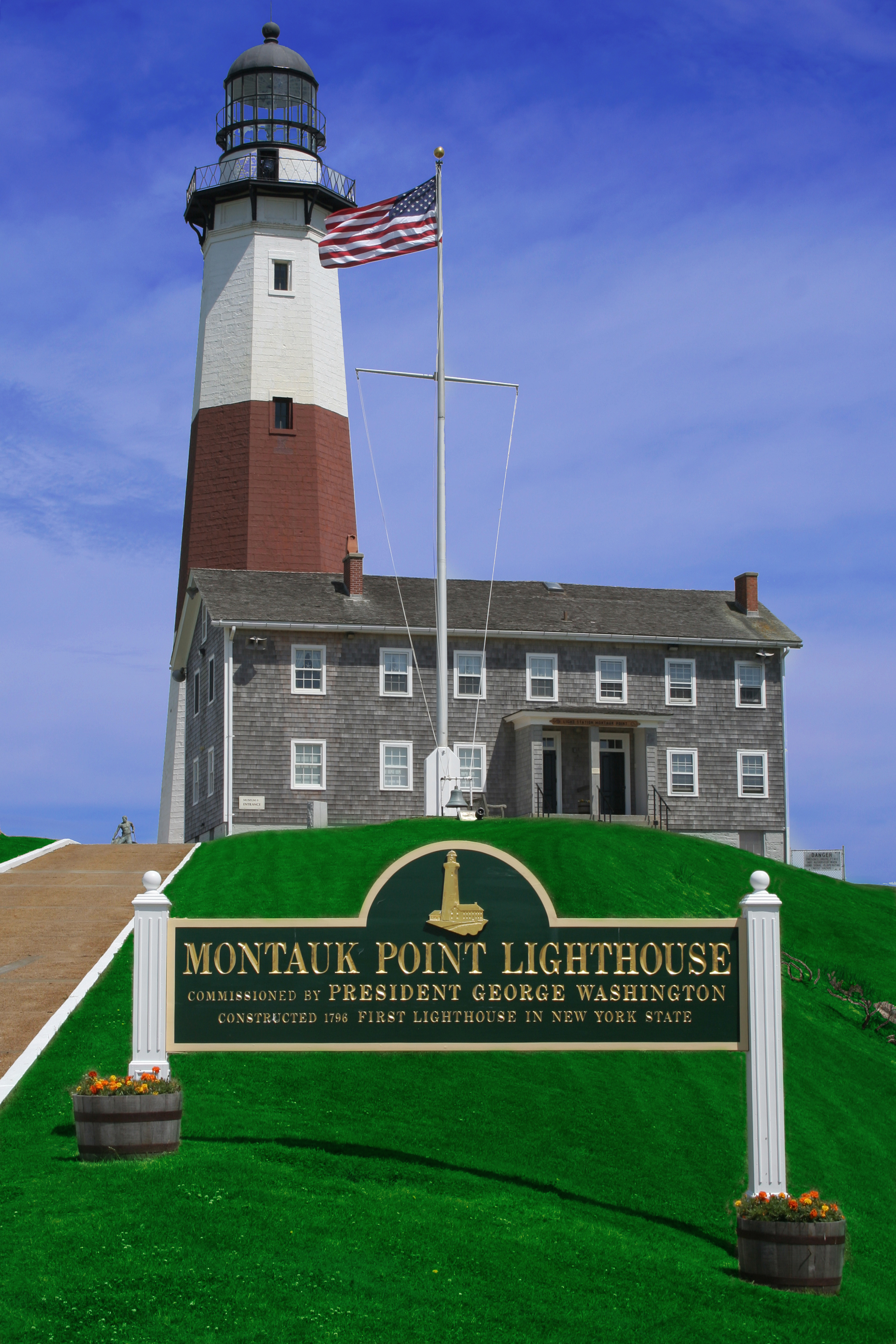 Montauk Point Light in Suffolk County, New York.